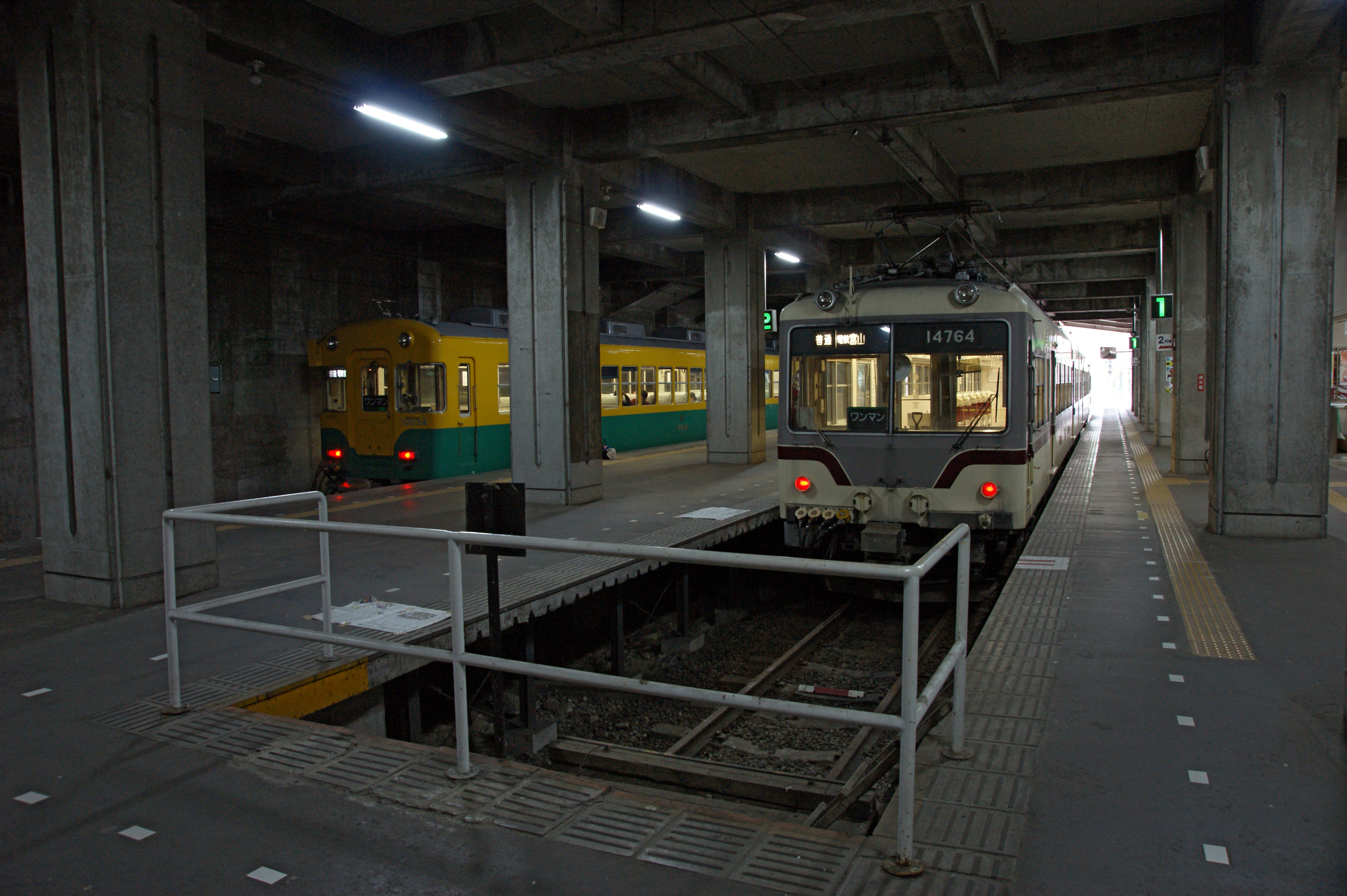 Tateyama Station in Tateyama, Toyama prefecture, Japan